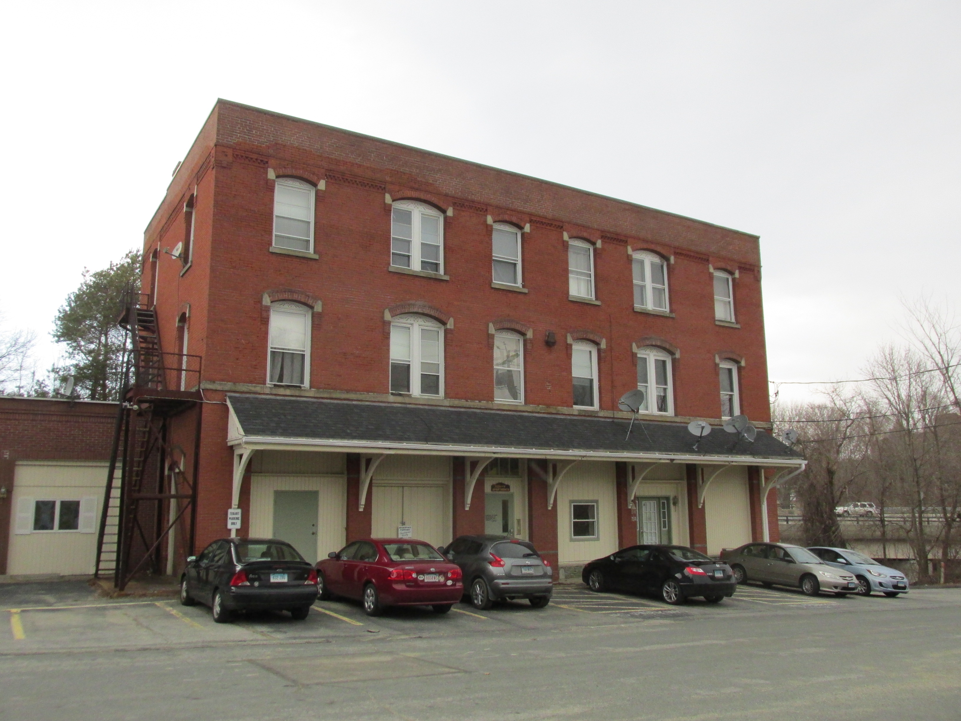 Tiffany Apartments, East Brooklyn Connecticut - 2014